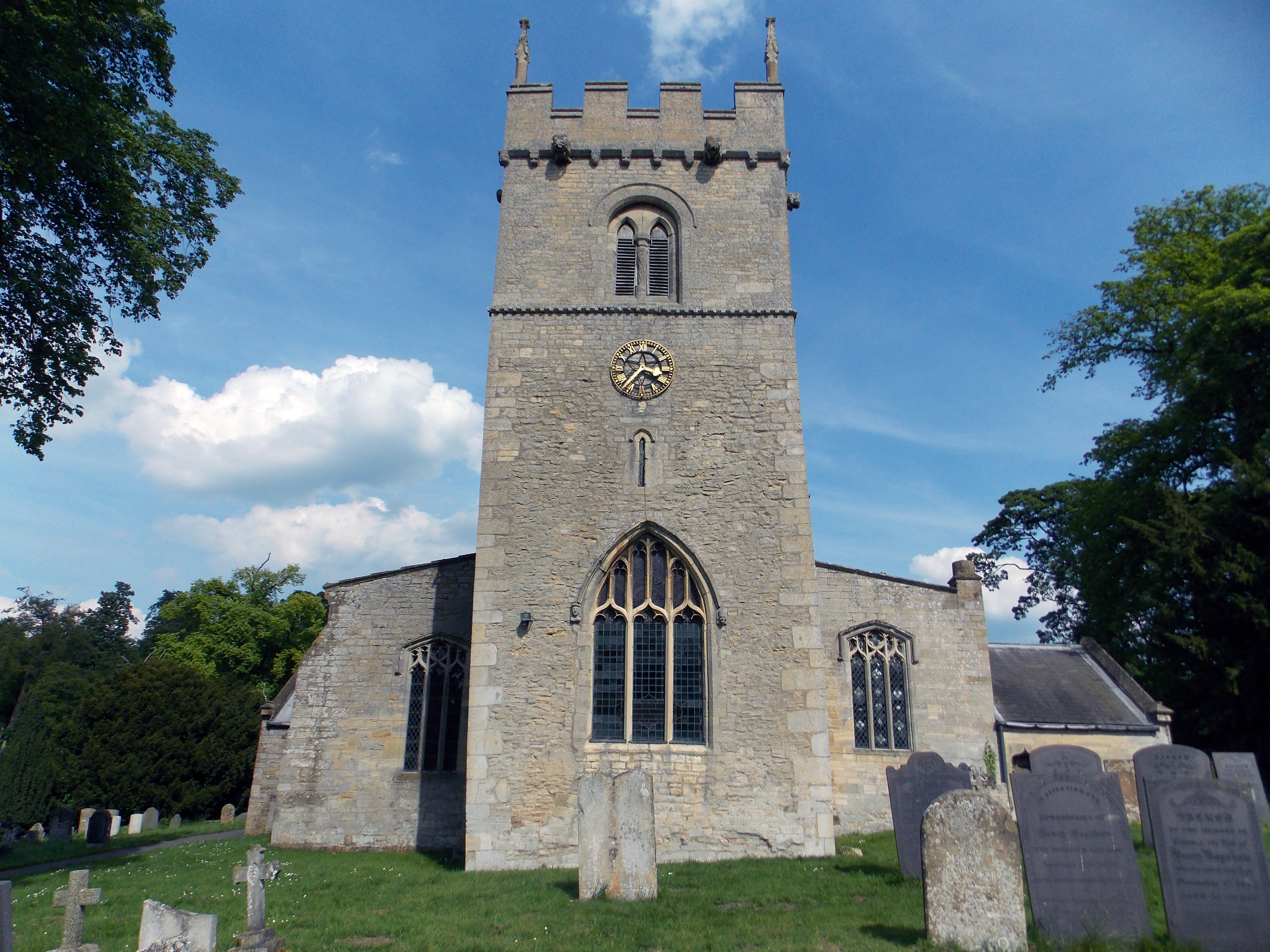 SS Andrew and Mary's parish church, Stoke Rochford, Lincolnshire, seen from the west